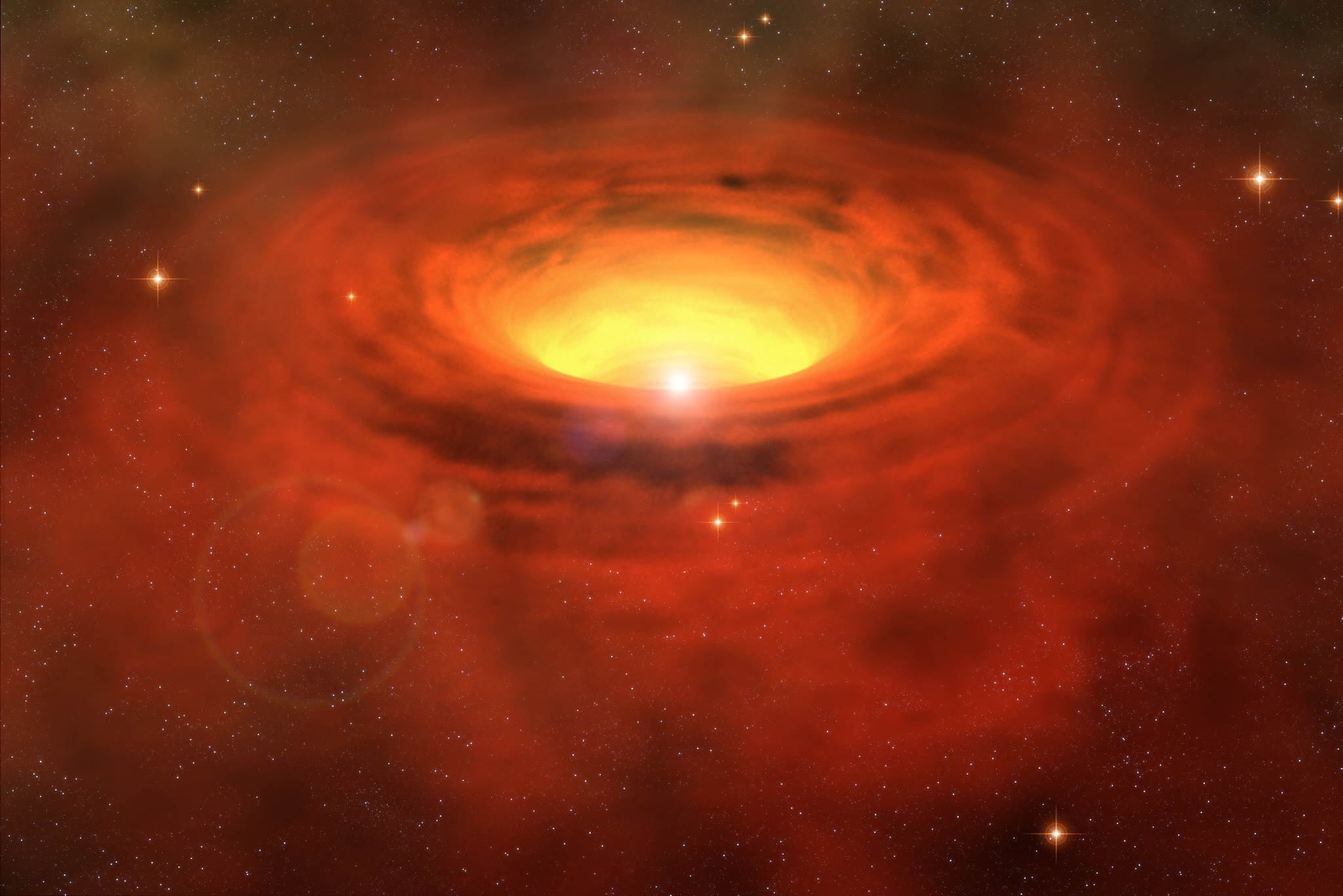 The star WOH G64. An artist's impression is provided of the thick, massive torus of matter surrounding the star as inferred from observations made with ESO's Very Large Telescope Interferometer.